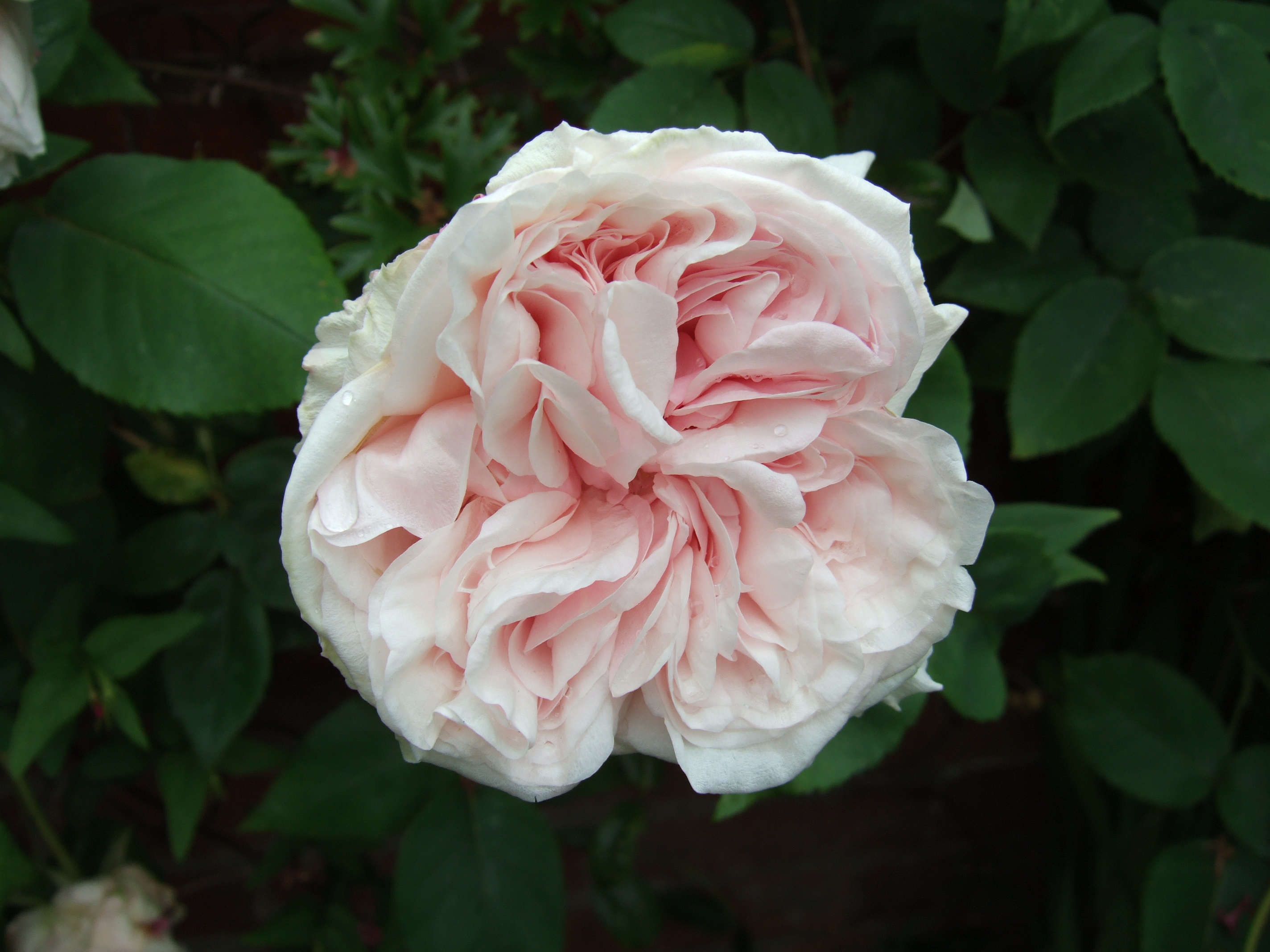 Rosa 'Climbing Souvenir de la Malmaison', a Bourbon rose